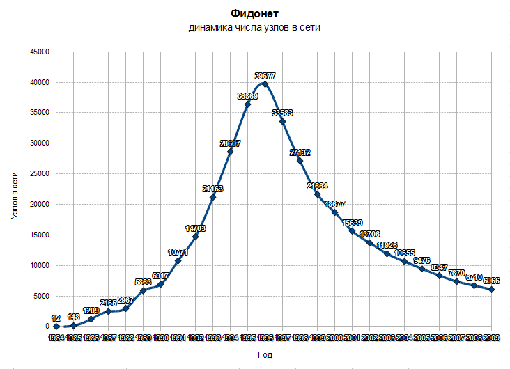 Number of nodes on the network FidoNet, by year